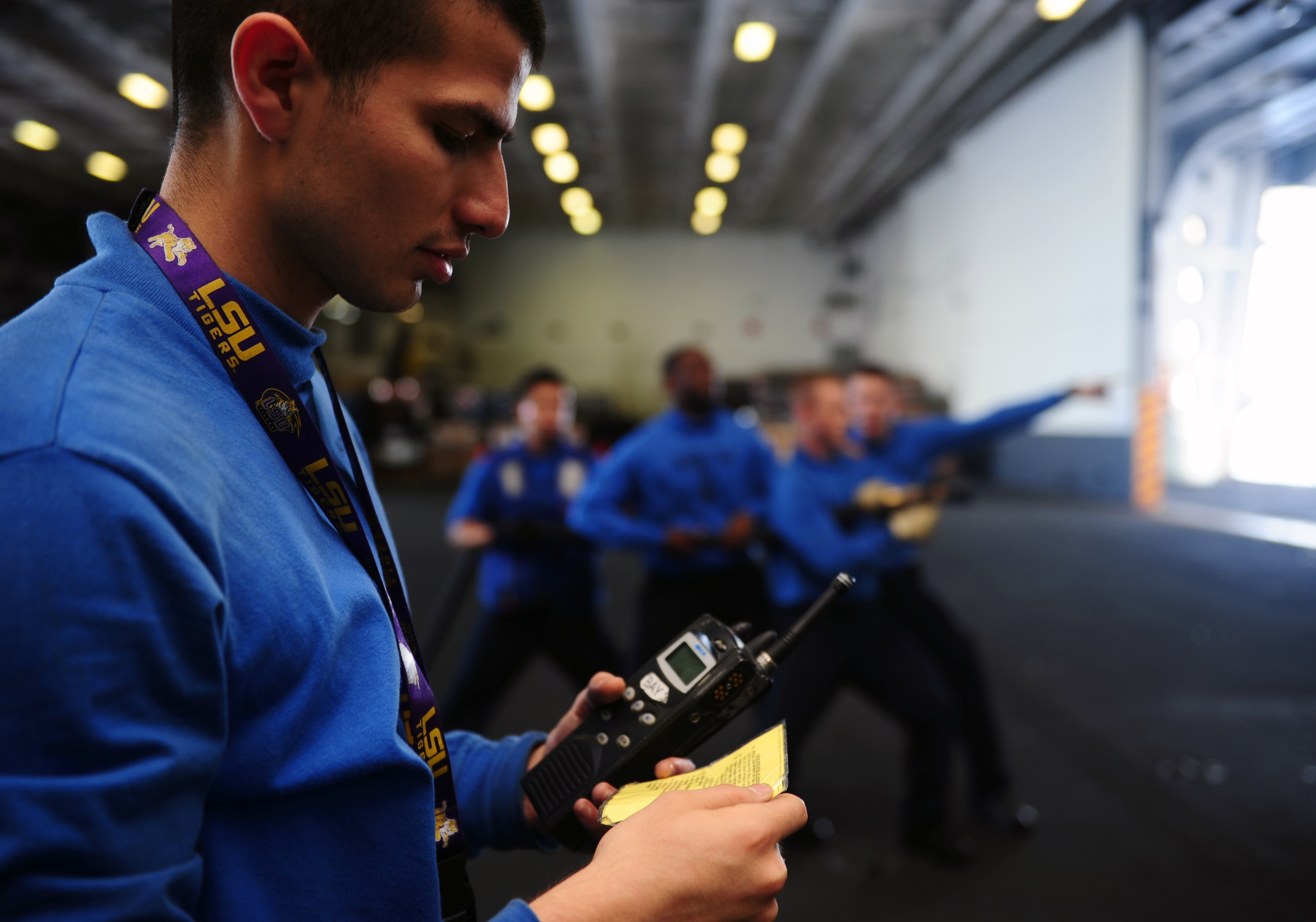 U.S. Navy Aviation Boatswain's Mate (Handling) Airman Zachary Castillo listens to a radio during firefighting training in the hangar bay aboard the aircraft carrier USS George H.W. Bush (CVN 77) in the Atlantic Ocean June 8, 2013. The George H.W. Bush was underway conducting training and carrier qualifications.